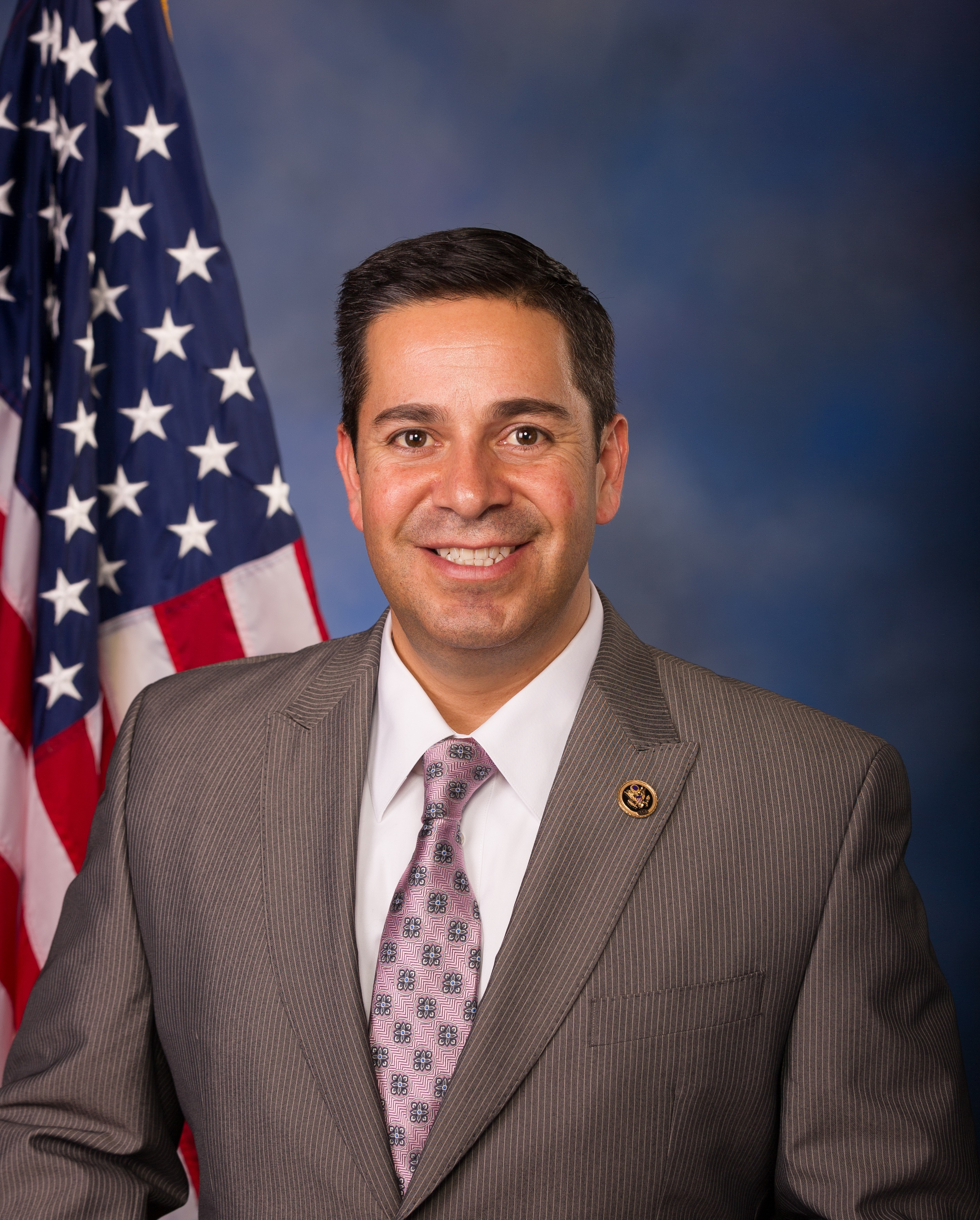 Ben Lujan, member of the United States House of Representatives